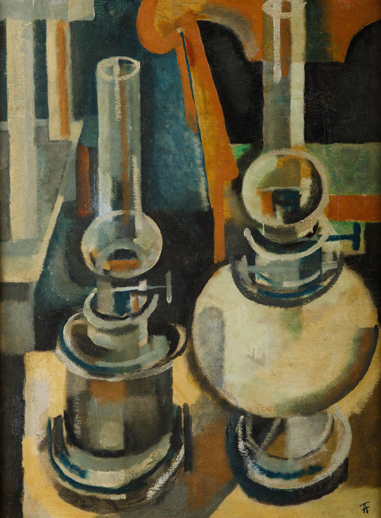 Still life